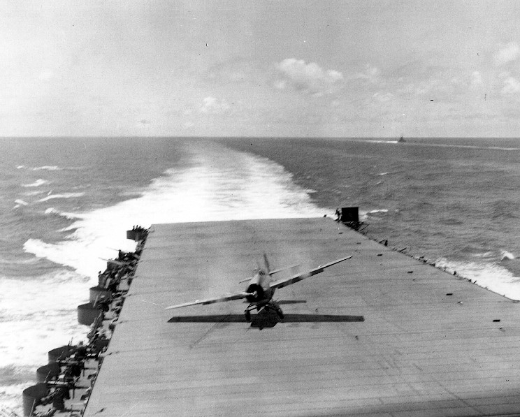 A U.S. Navy Grumman F4F-4 Wildcat of fighting squadron VF-3 from the USS Yorktown (CV-5) lands on the aircraft carrier USS Hornet (CV-8), circa 14:30 h, 4 June 1942. The plane "3-F-24" was piloted by Ens. Daniel C. Sheedy and had been damaged by Japanese A6M2 Zero fighters over the Japanese fleet. The aircraft landed hard, causing the right landing gear to collapse and the six 12.7 mm machine guns opened fire for two seconds (note the smoke coming from the guns). The bullets killed three Marines, a sailor of VB-8, and the aft 12.7 cm gun control officer, Lt. Royal R. Ingersoll, son of Adm. Royal E. Ingersoll (CINCLANT). Twenty others were wounded.